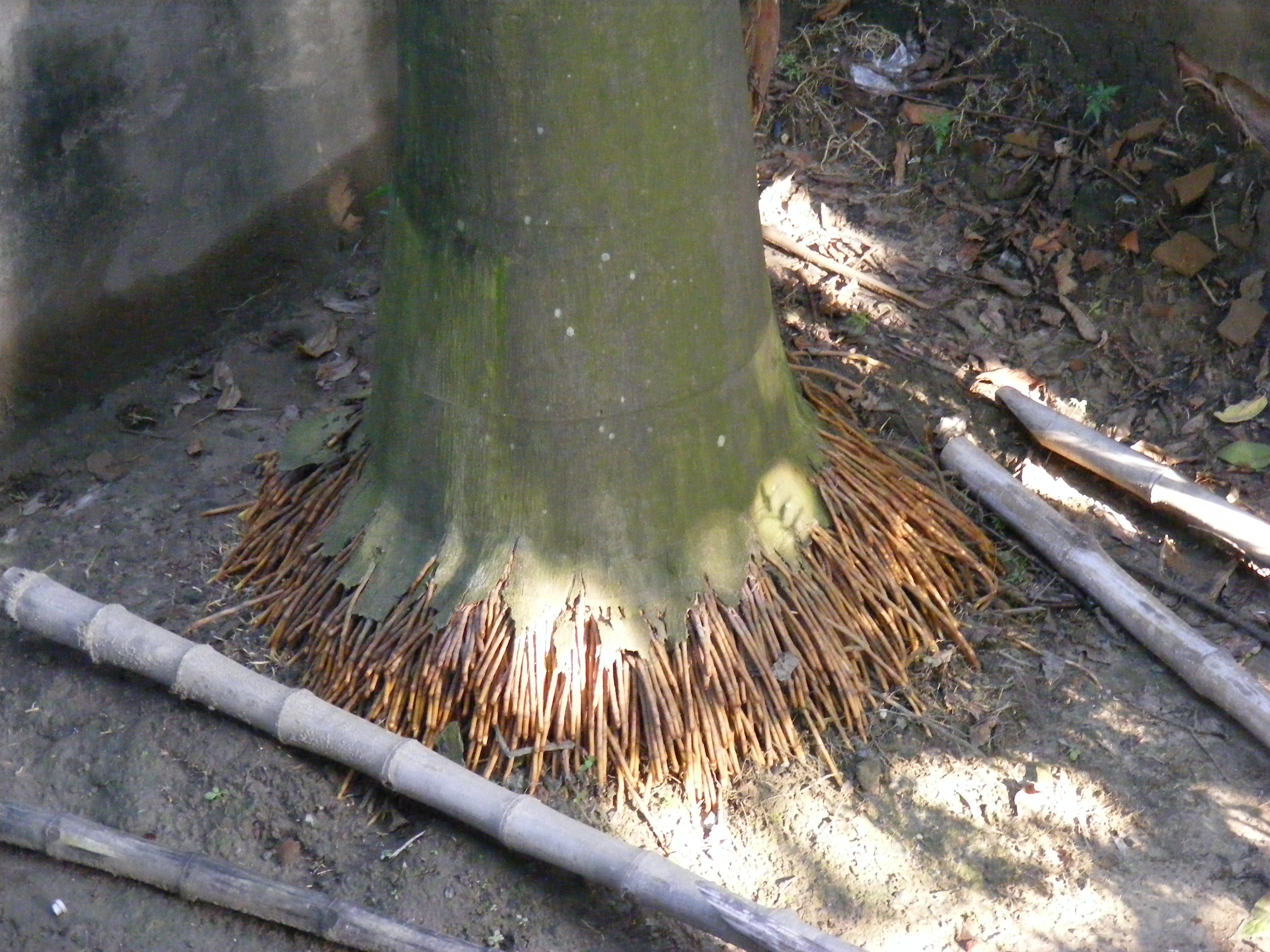 Royal Palm Root System